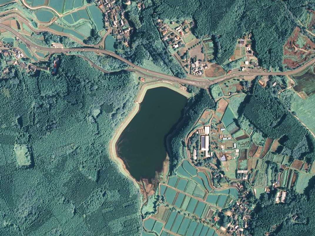 Okiribata Dam.